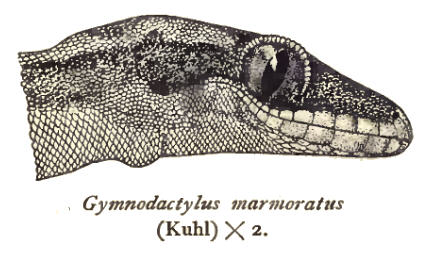 Javan bent-toed gecko, also know as Marbled bow-fingered gecko, Cyrtodactylus marmoratus (Kuhl, 1831)